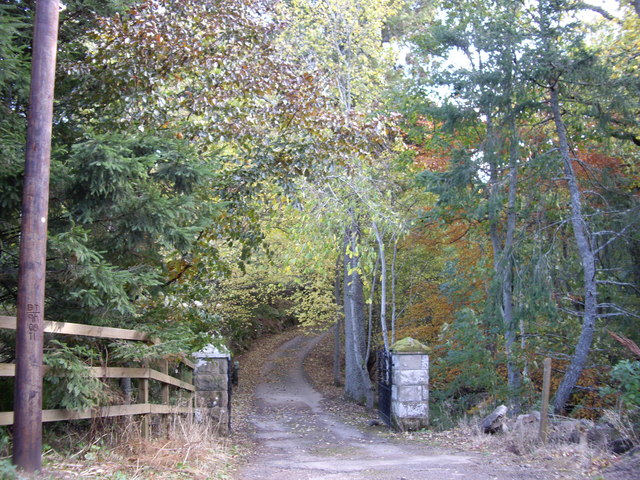 West entrance to Craig Castle From B9002.